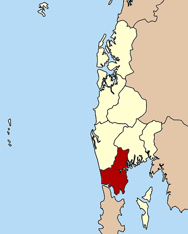 Map of Phang Nga province, Thailand, highlighting the district Takua Thung (geocode 8204).